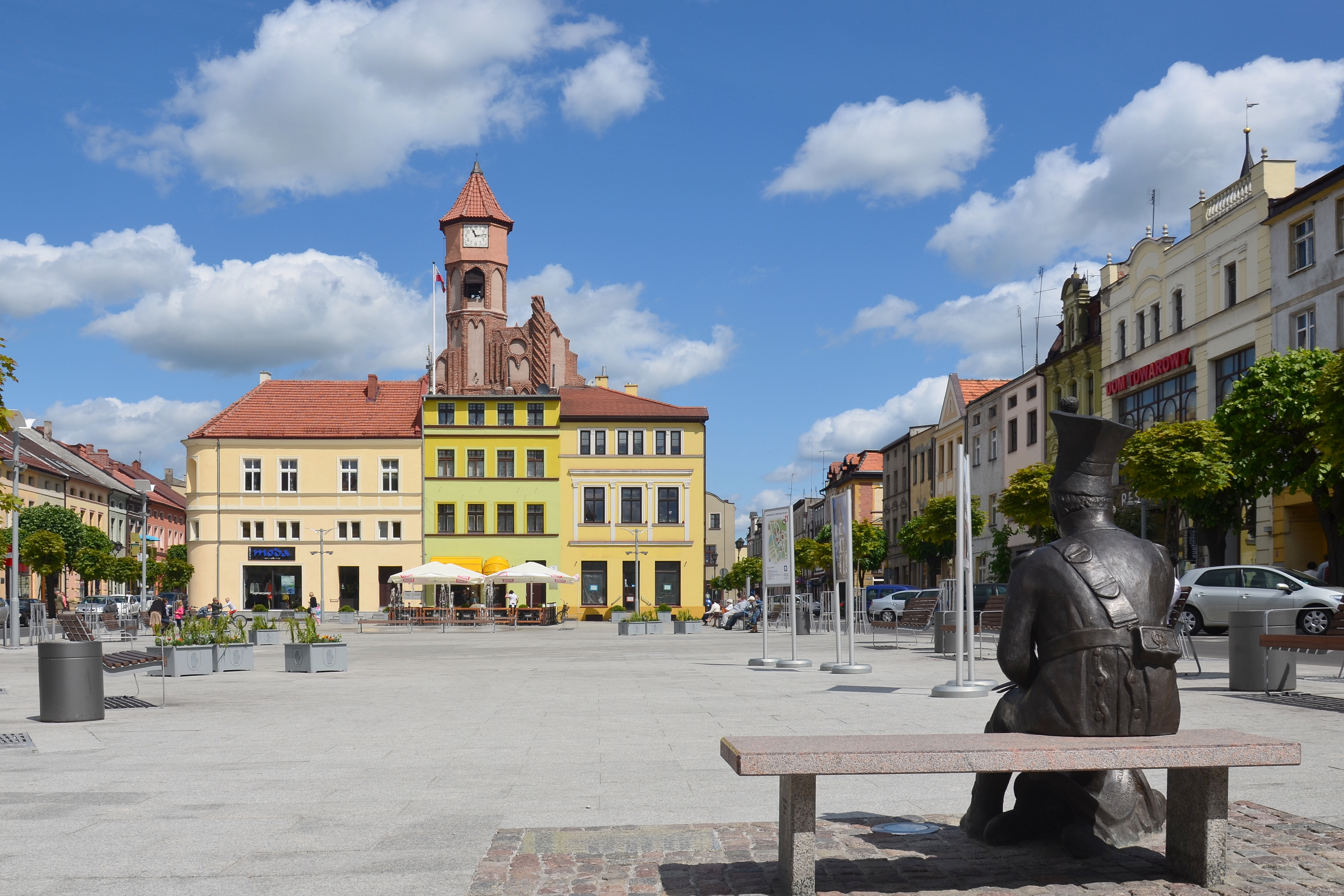 Market square (Duży Rynek) in Brodnica, old town hall